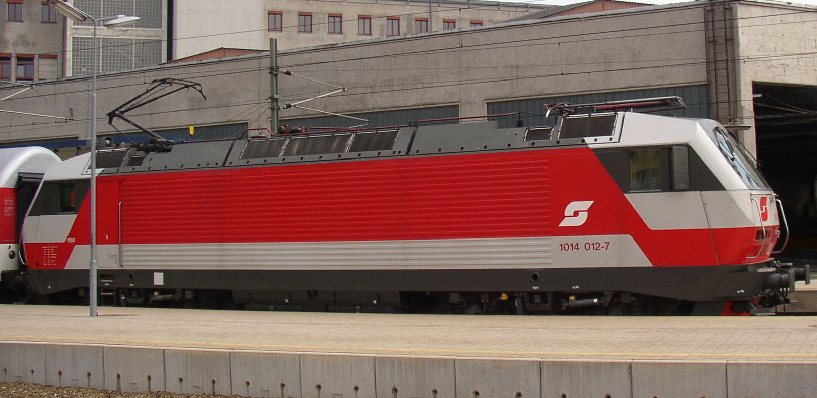 OeBB 1014.012-7 departing from Vienna, Westbahnhof for Bratislava